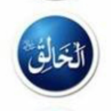 Al Khalik / The Creator is a name of God in Islam, Is a name of Allah